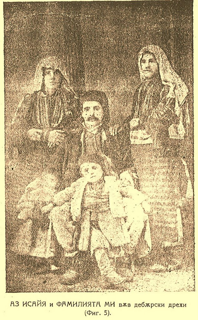 Isaya Mazhovski with his family